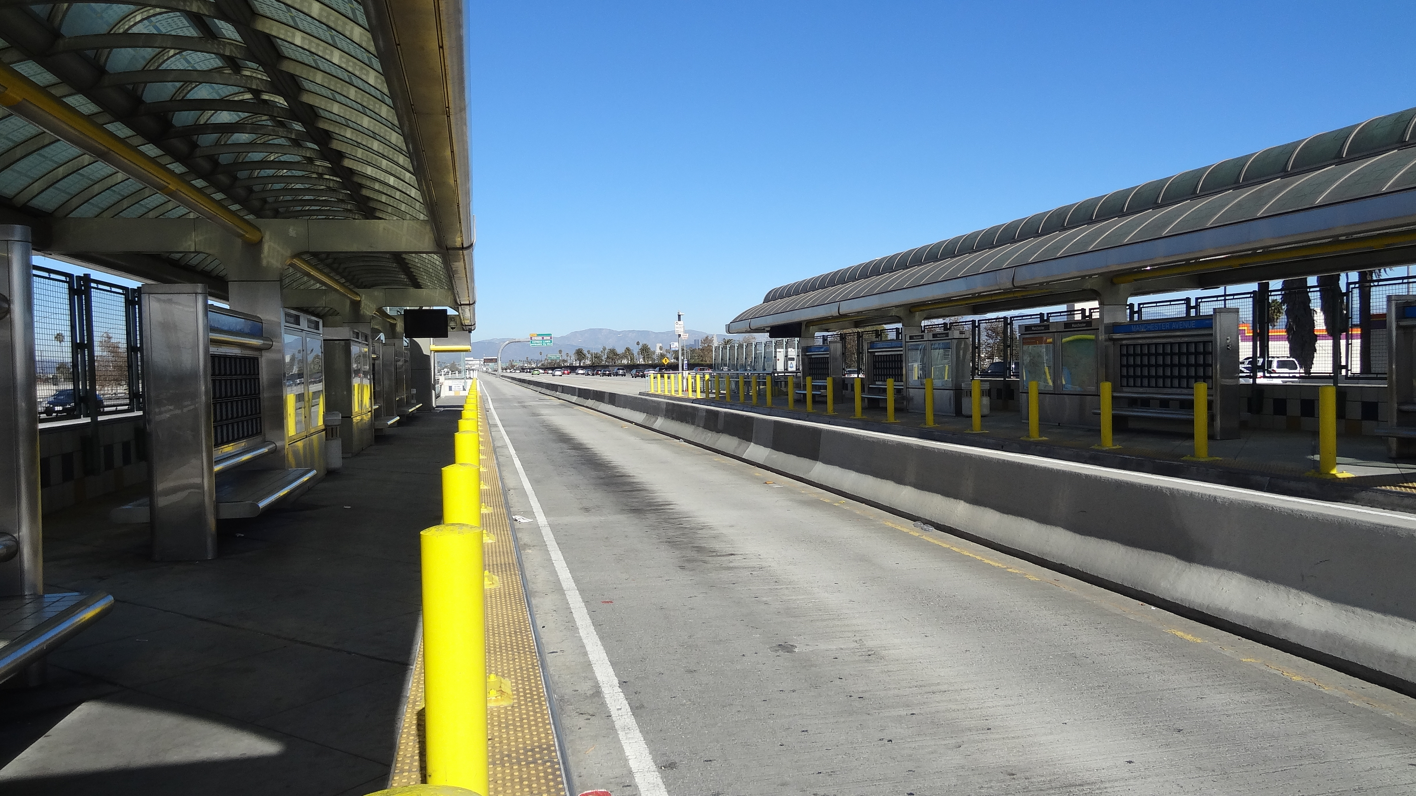 Manchester Metro Silver Line station as of December 2013.